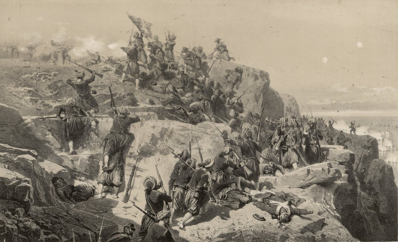 French Zouaves storming and capturing Telegraph Hill battle alma.